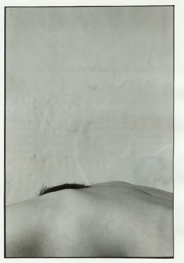 Mons veneris